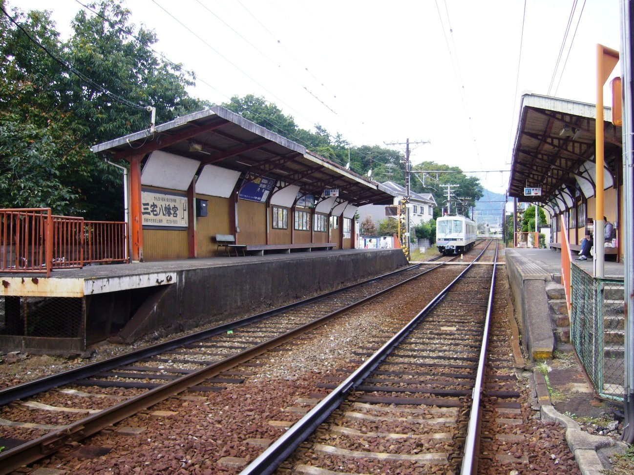 Hachiman mae station of the Eizan Electric Railway Kurama Line. View from the adjacent cross road; a train to Kirama with Deo 800 were leaving the station